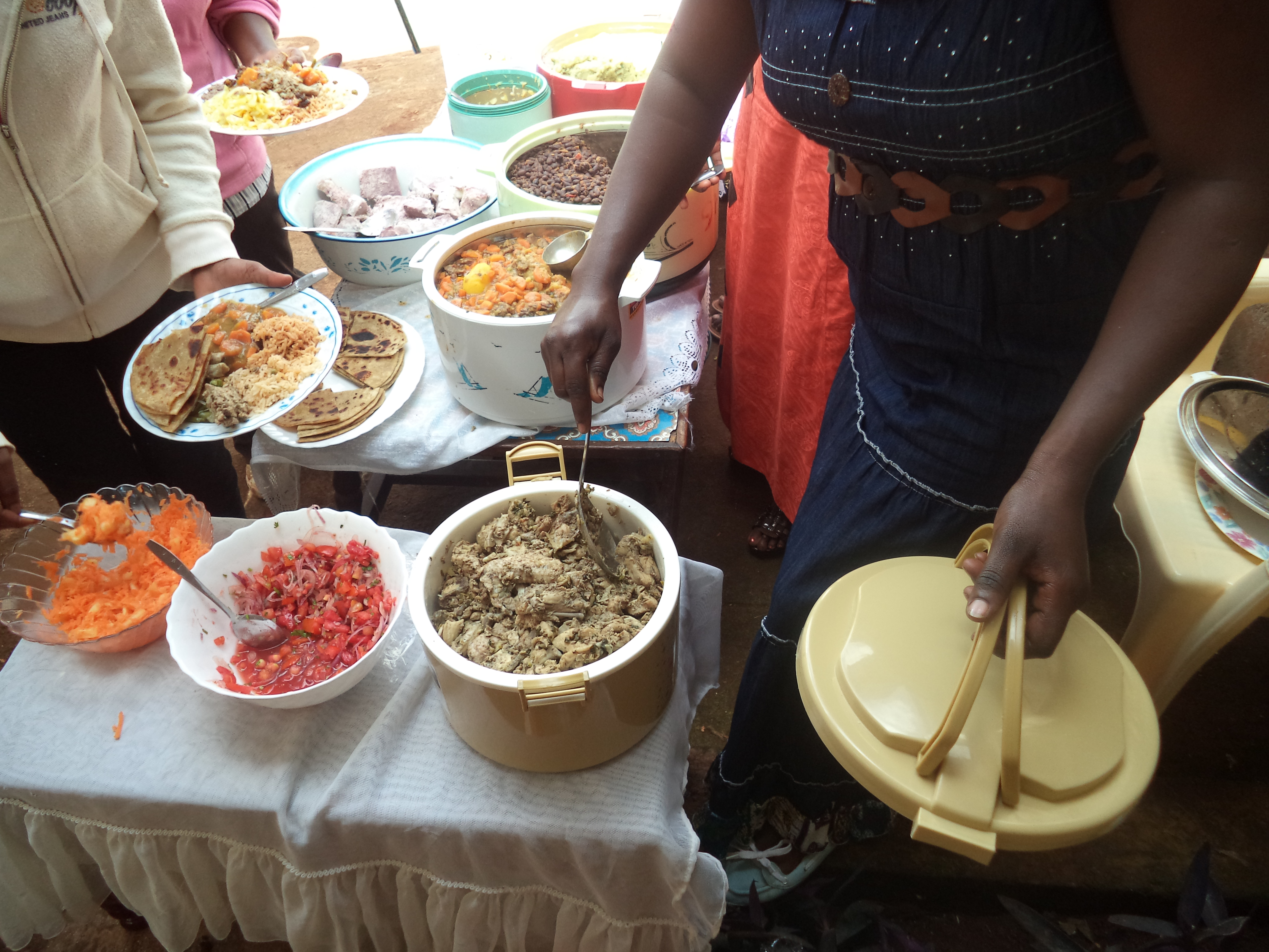 Njahi, Nduma, Chapati, Kachumbari, chicken - an average Kikuyu party mix This is an image of food from Kenya